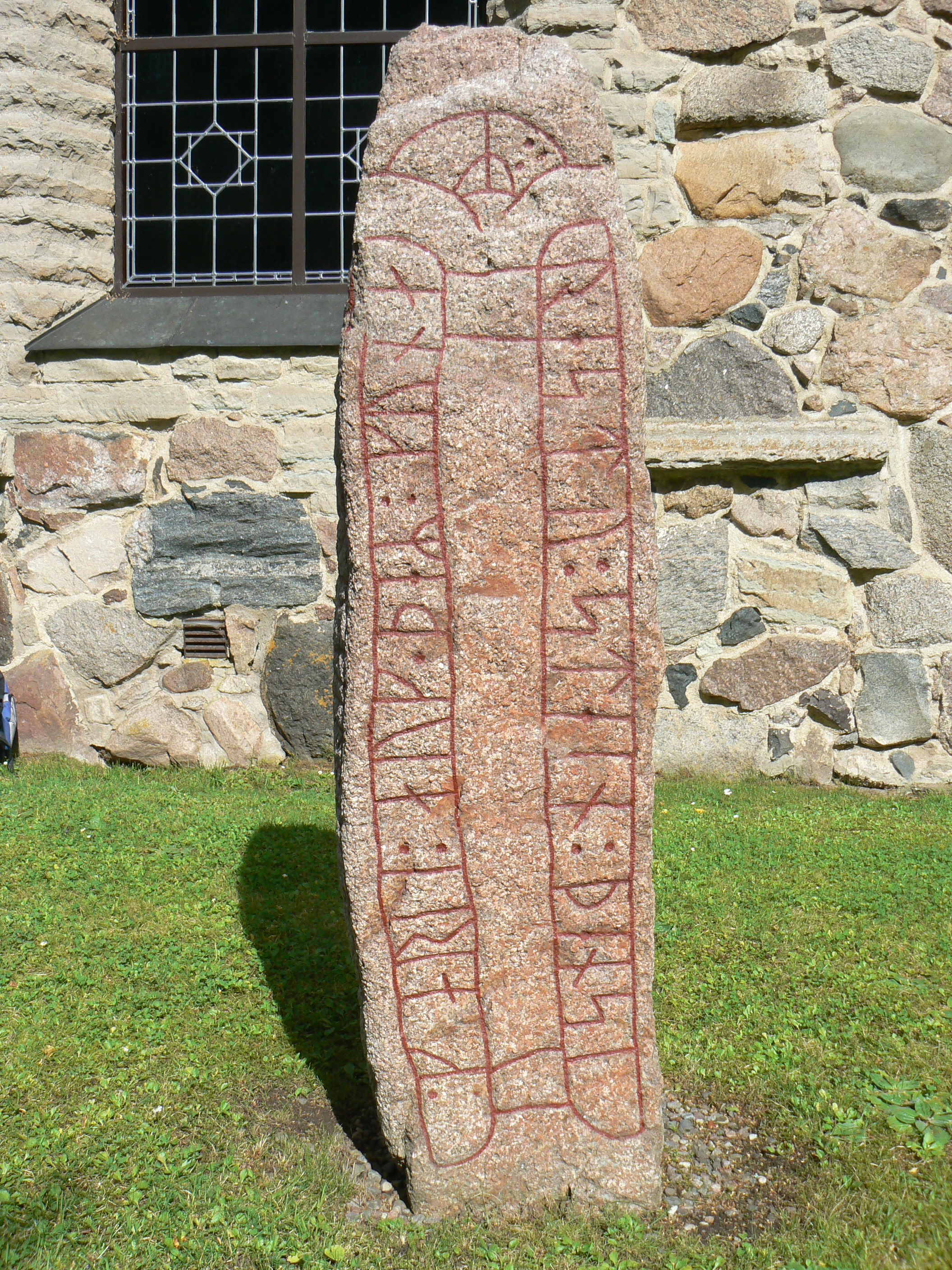 Runestone (Öster Götlands runinskrifter 201) at Mantorp (Veta church). Photo of the north side. The stone is also carved on its west side.